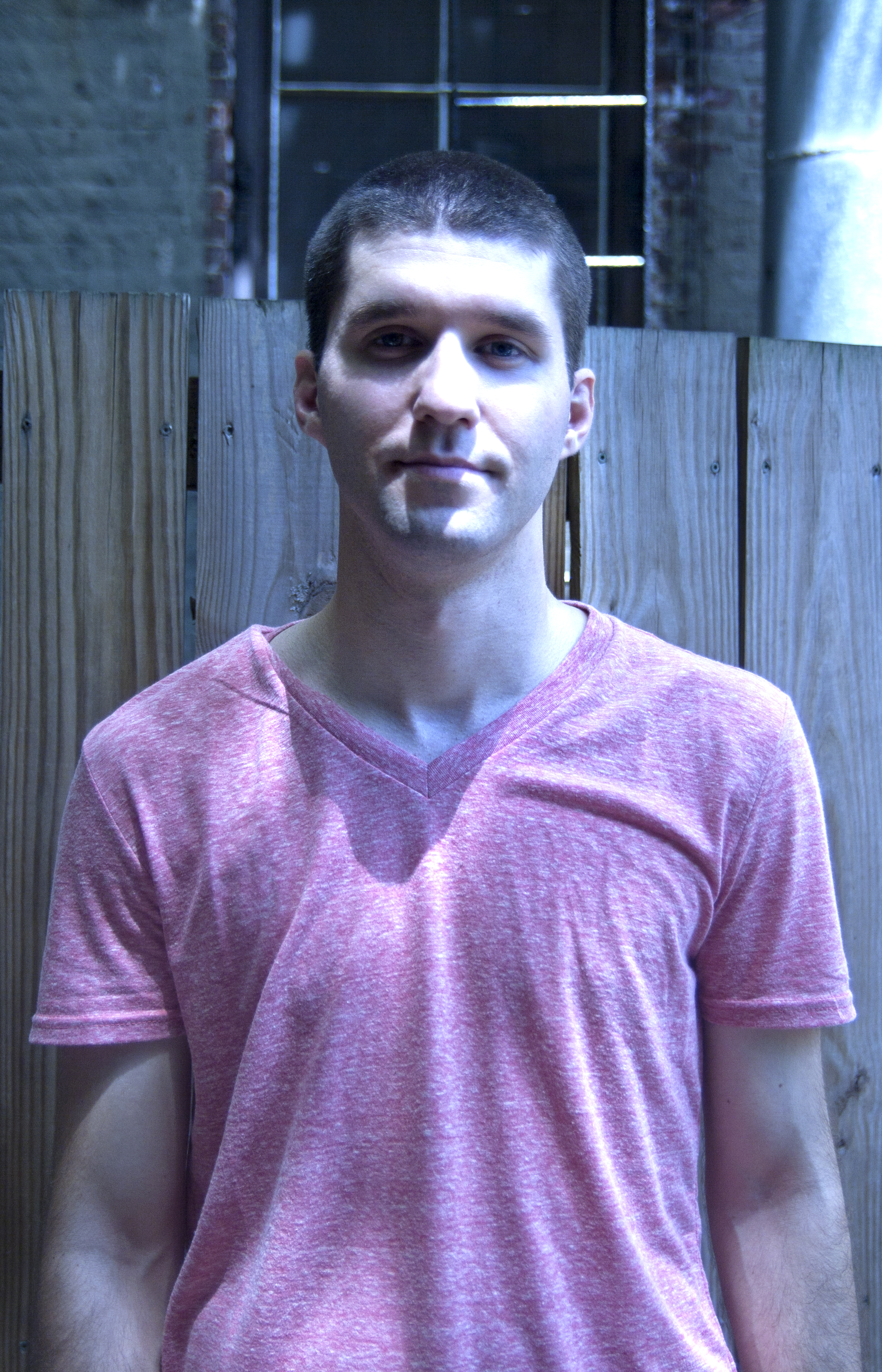 BROOKLYN, NEW YORK, USA: JULY 14: American musician Ross Mintzer at a restaurant after finishing the recording sessions of his song "Lost In America".